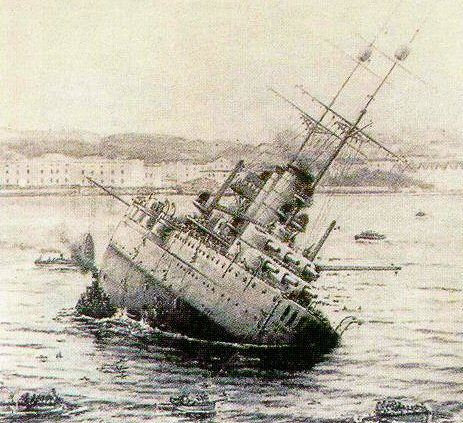 Viribus unitis, the first battleship to bear the Yugoslav flag, on November 1st, 1918, sunk in Pula harbour by Italian diversHrvatski: Viribus unitis, prvi bojni brod koji je nosio Yugoslavio zastavu, 1. studenog 1918. U pulskoj luci potopljen od strane talijanskih diverzanata.